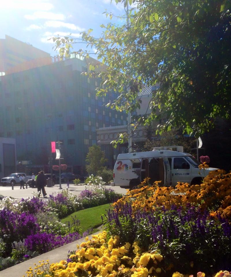 KTUU news van in downtown Anchorage, Alaska.